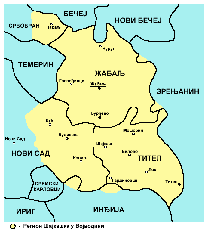 Map of Šajkaška region in Vojvodina, Serbia.